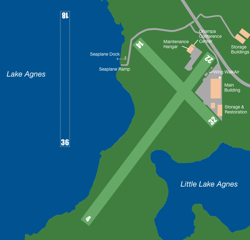 General layout of the facilities at Fantasy of Flight in Polk City, FL.